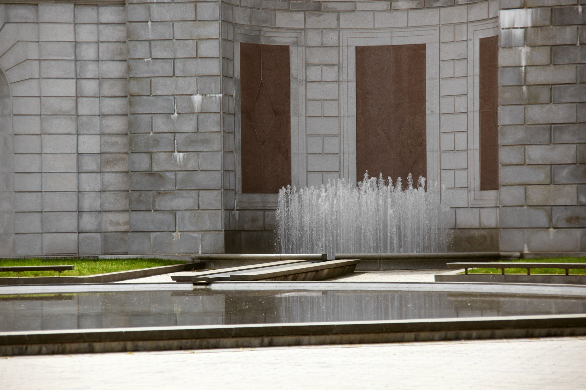 Looking southwest across the plaza of the Hemicycle at the Women in Military Service for America Memorial at Arlington National Cemetery in Arlington County, Virginia, in the United States. The fountain is located in the central apse of the Hemicycle. (The memorial itself is behind the Hemicycle, buried behind the hill.) A low granite-lined rill guides the water down to the central reflecting pool. The reflecting pool is lined with black granite. The plaza itself is made of light grey cobblestone.